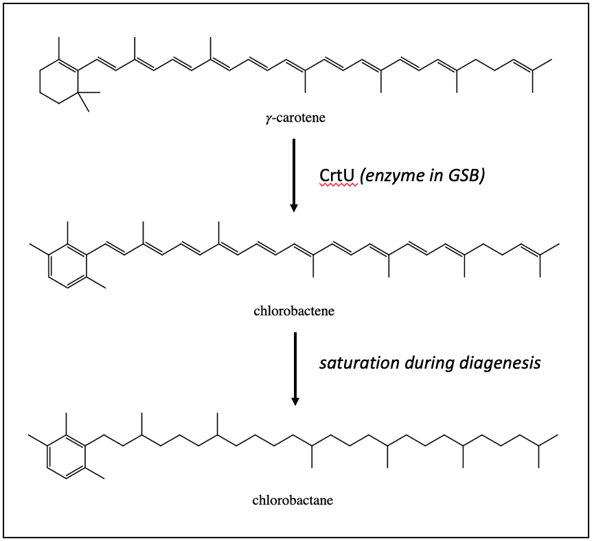 Enzymatic conversion of gamma-carotene to chlorobactene, followed by saturation via diagenesis to produce chlorobactane. Molecules produced with ChemDraw.